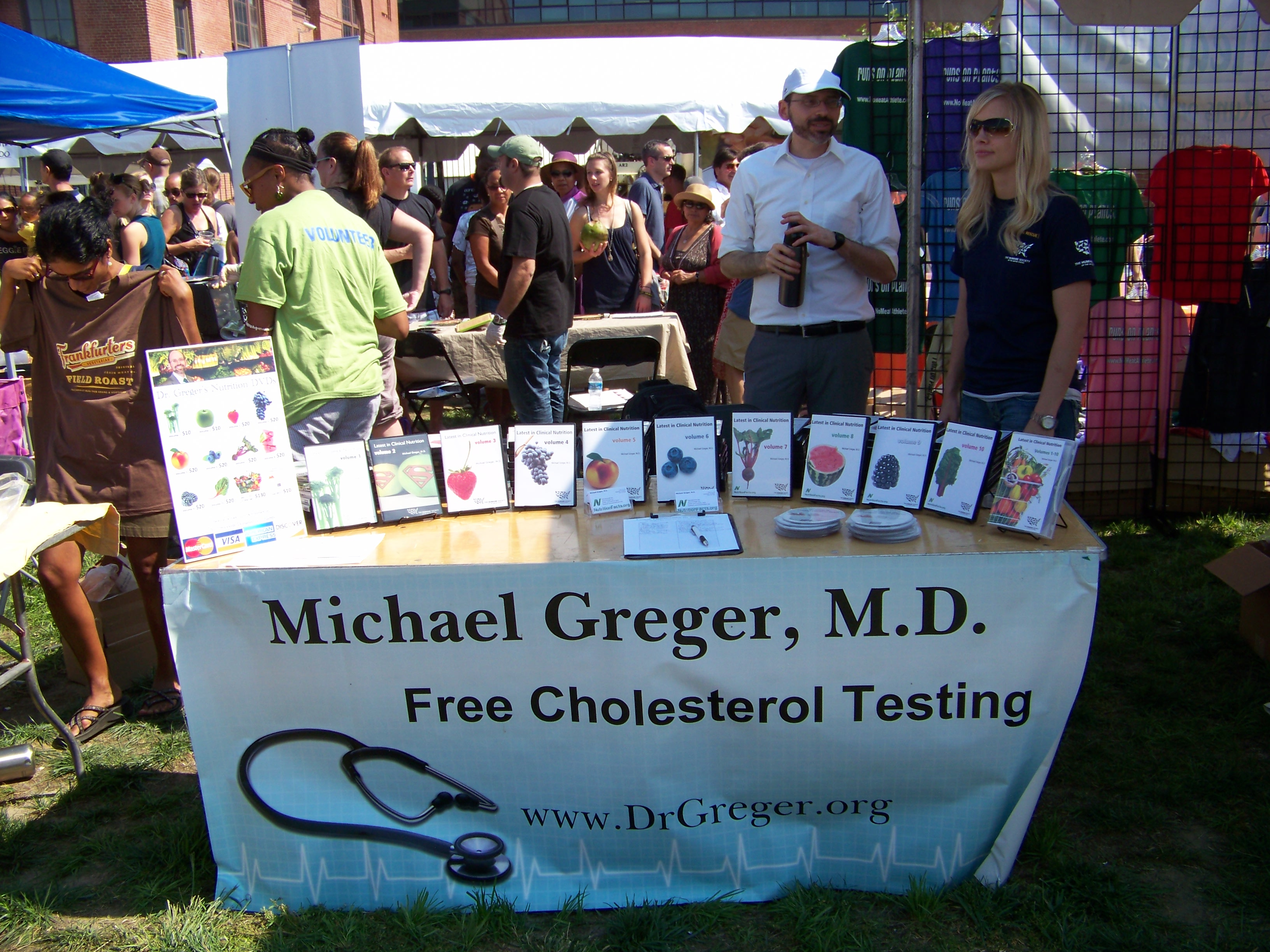 Michael Greger at DC VegFest, photo made 2007